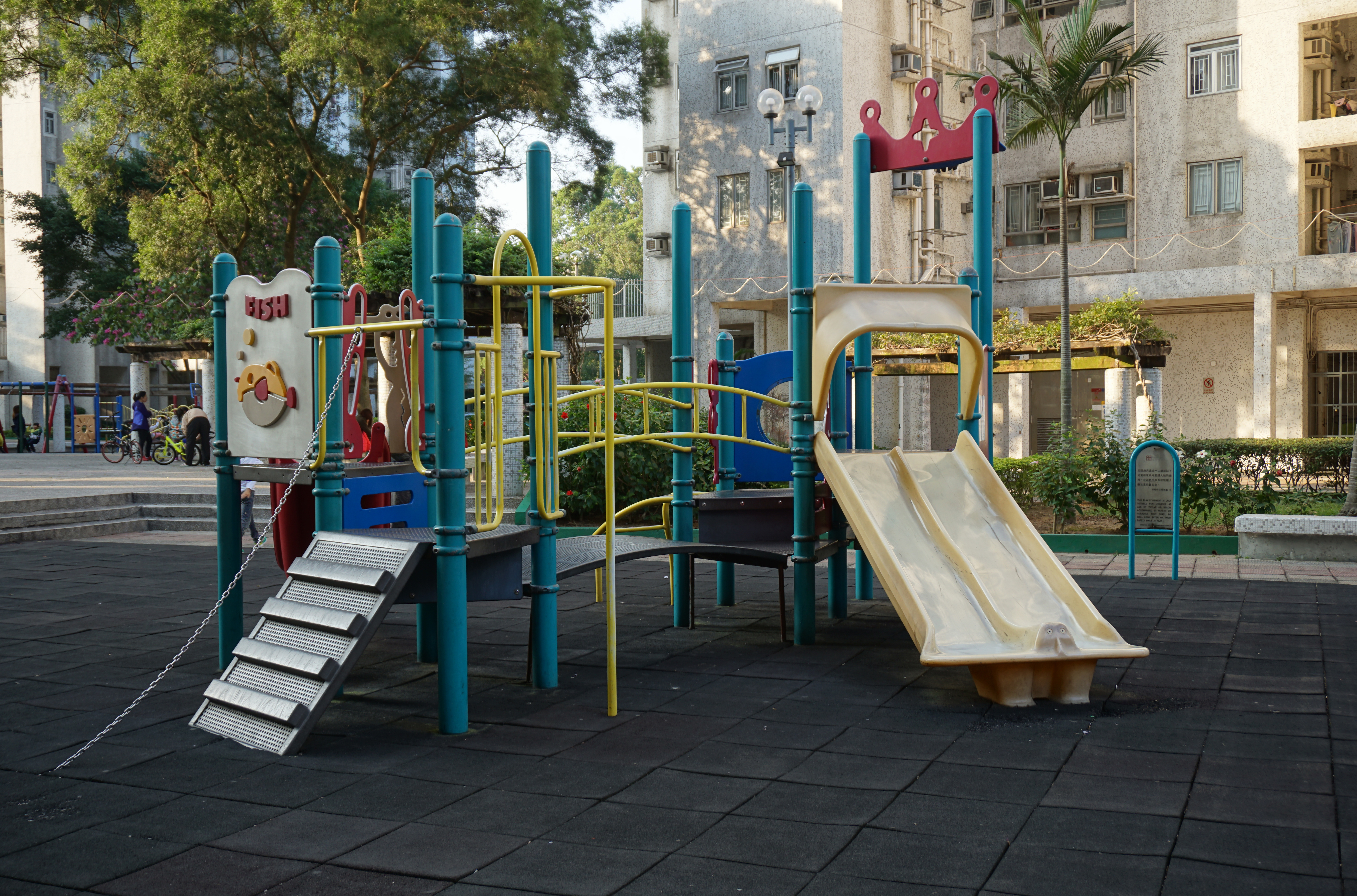 Wing Fok Centre in Luen Wo Hui, Hong Kong.